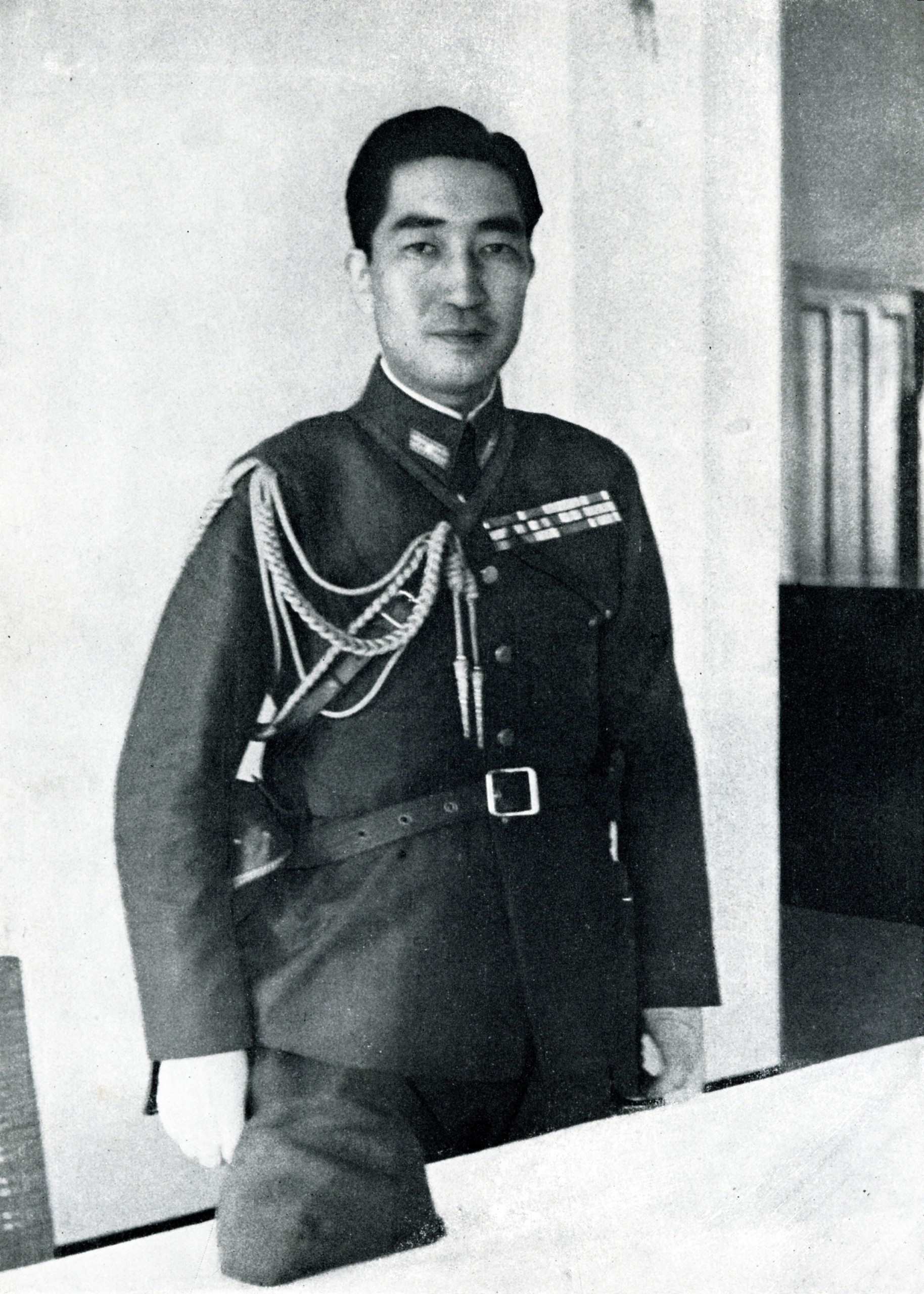 竹田宮恒徳 or Takedanomiya Kotoku, a tactician of Imperial Japanese Army in days of World War II, famous in its tactics in Battle of Guadalcanal and Chairman of Tokyo Olympic Organization. Known as Prince Takeda ouside Japan.